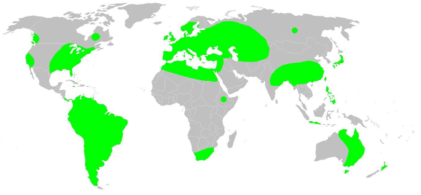 Known world distribution of Pholcus phalangioides (Pholcidae), after data from British Arachnological Society, 2006.